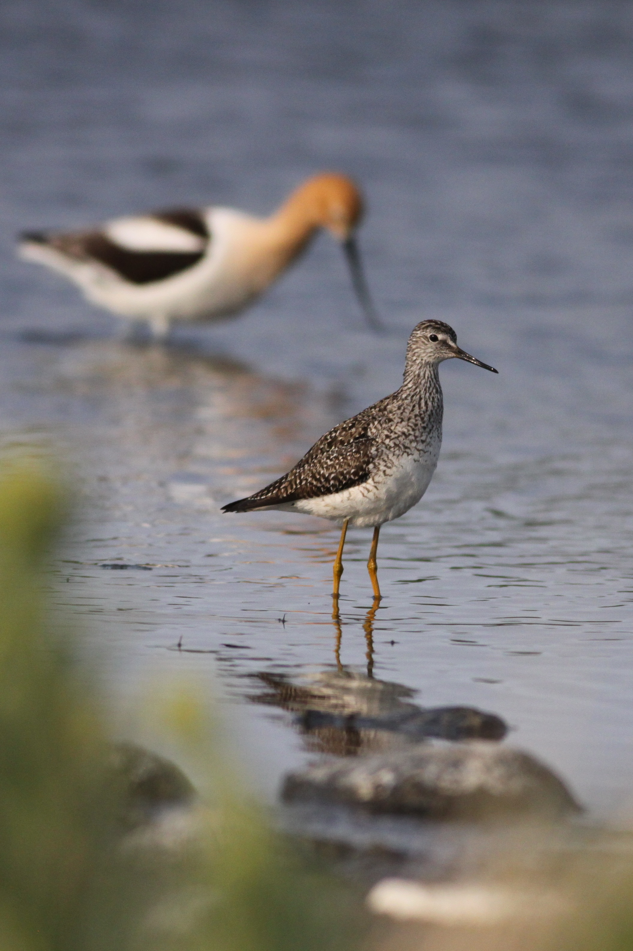 Lesser Yellowlegs and Avocet - Sandy Lake, Two Hills County